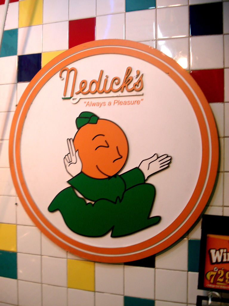 "Weird Nedick's Hot Dog Logo Dude" Hackettstown, New Jersey